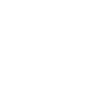 This PNG file features a pink unicorn, but it has an alpha channel that makes the image completely transparent, thus approximating an Invisible Pink Unicorn. However, the pink unicorn is visible in some browsers that do not (fully) support PNG alpha channel transparency. To verify that the above description is accurate, you might use a graphics application with excellent alpha support, see Discussion for a comprehensive list of tools.